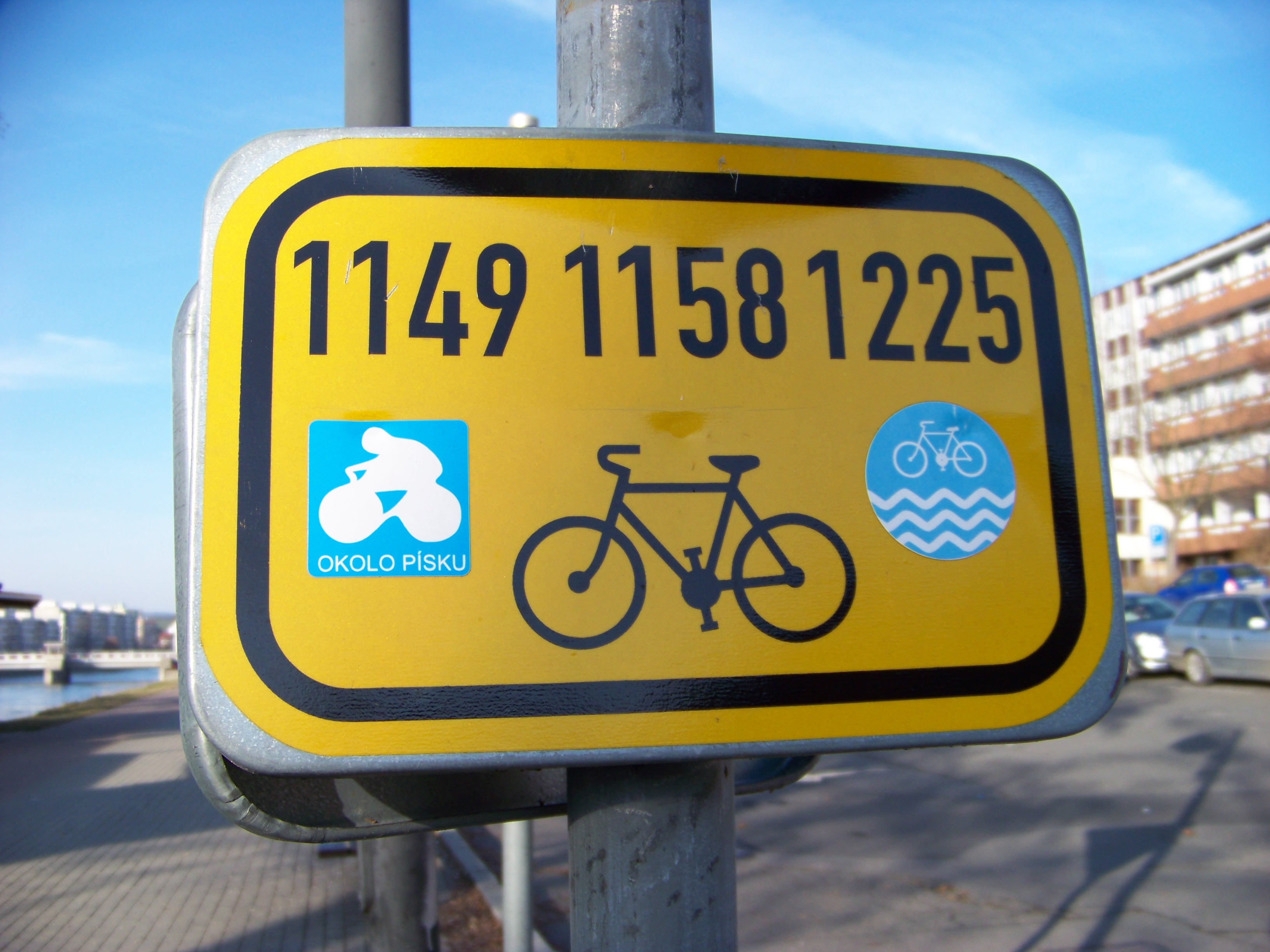 Písek-Budějovické Předměstí, Písek District, South Bohemian Region, the Czech Republic. Nábřeží 1. máje, a cycling route sign. - OpenStreetMap(Info)